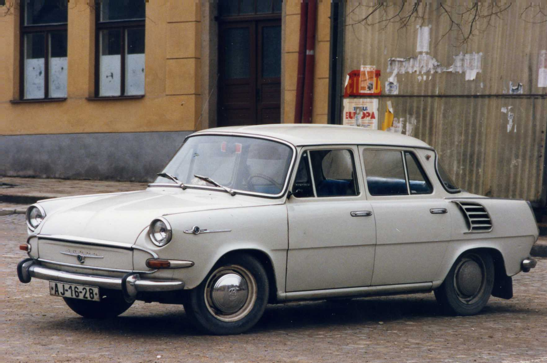 Very tidy Skoda 1000 MB, Jihlava 1992